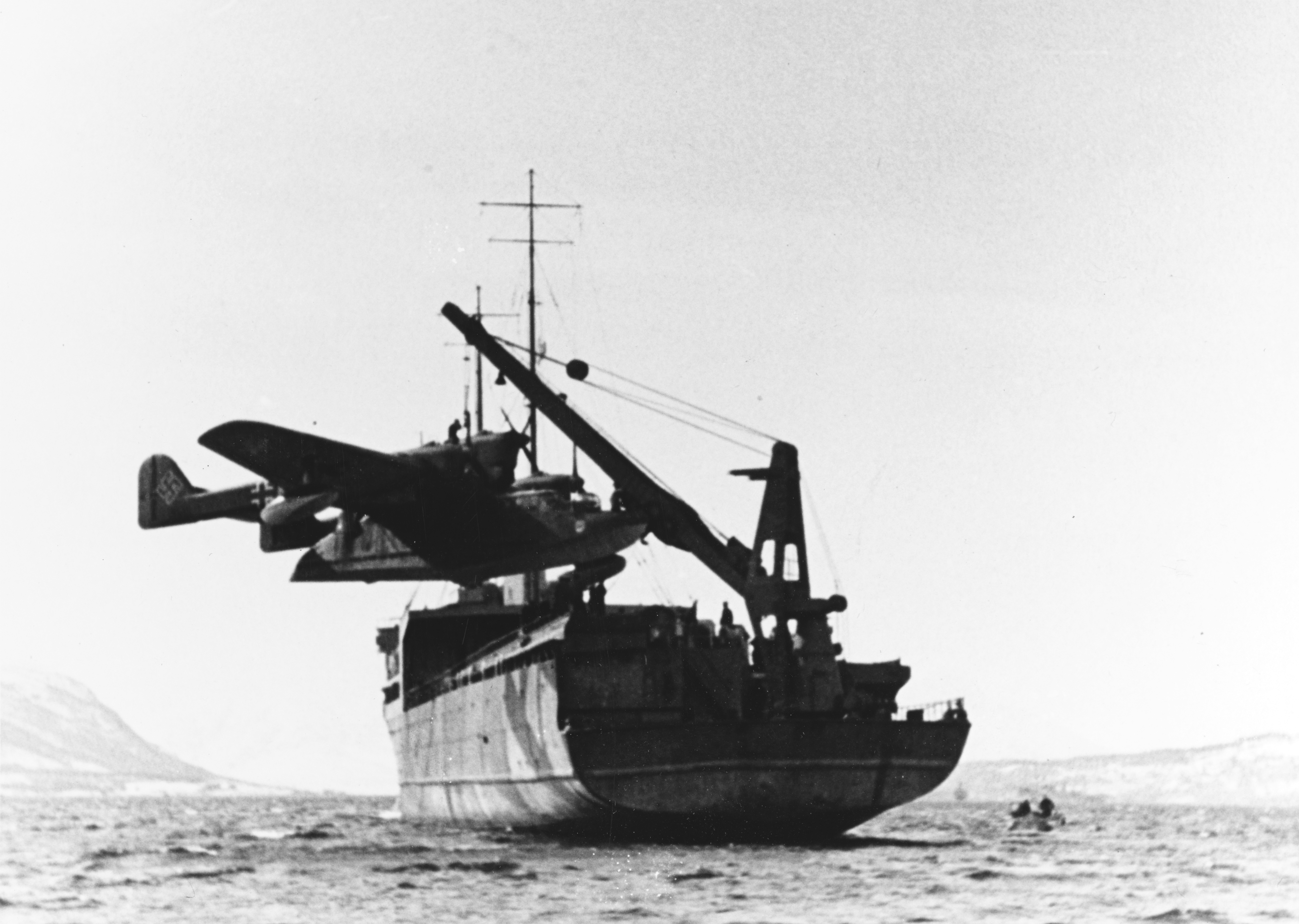 A German Blohm & Voss BV 138 float plane being lifted aboard the German aircraft tender Friesenland, in Norwegian waters, during the Second World War.